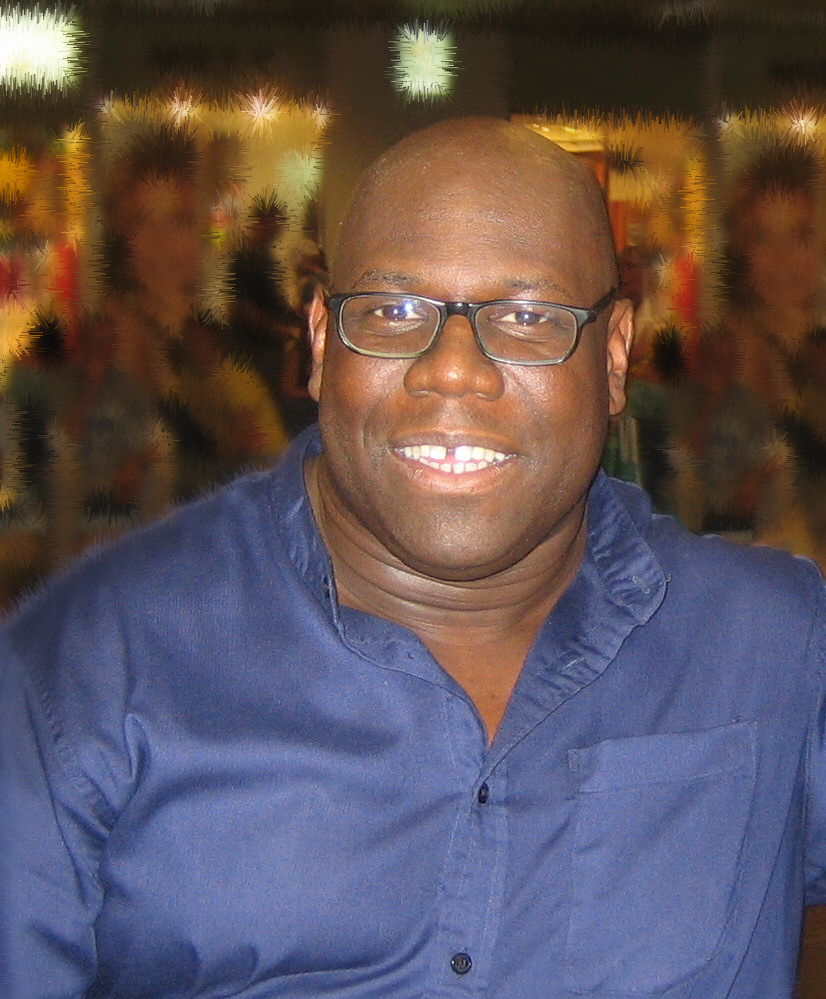 Me and Carl Cox at Ibiza airport